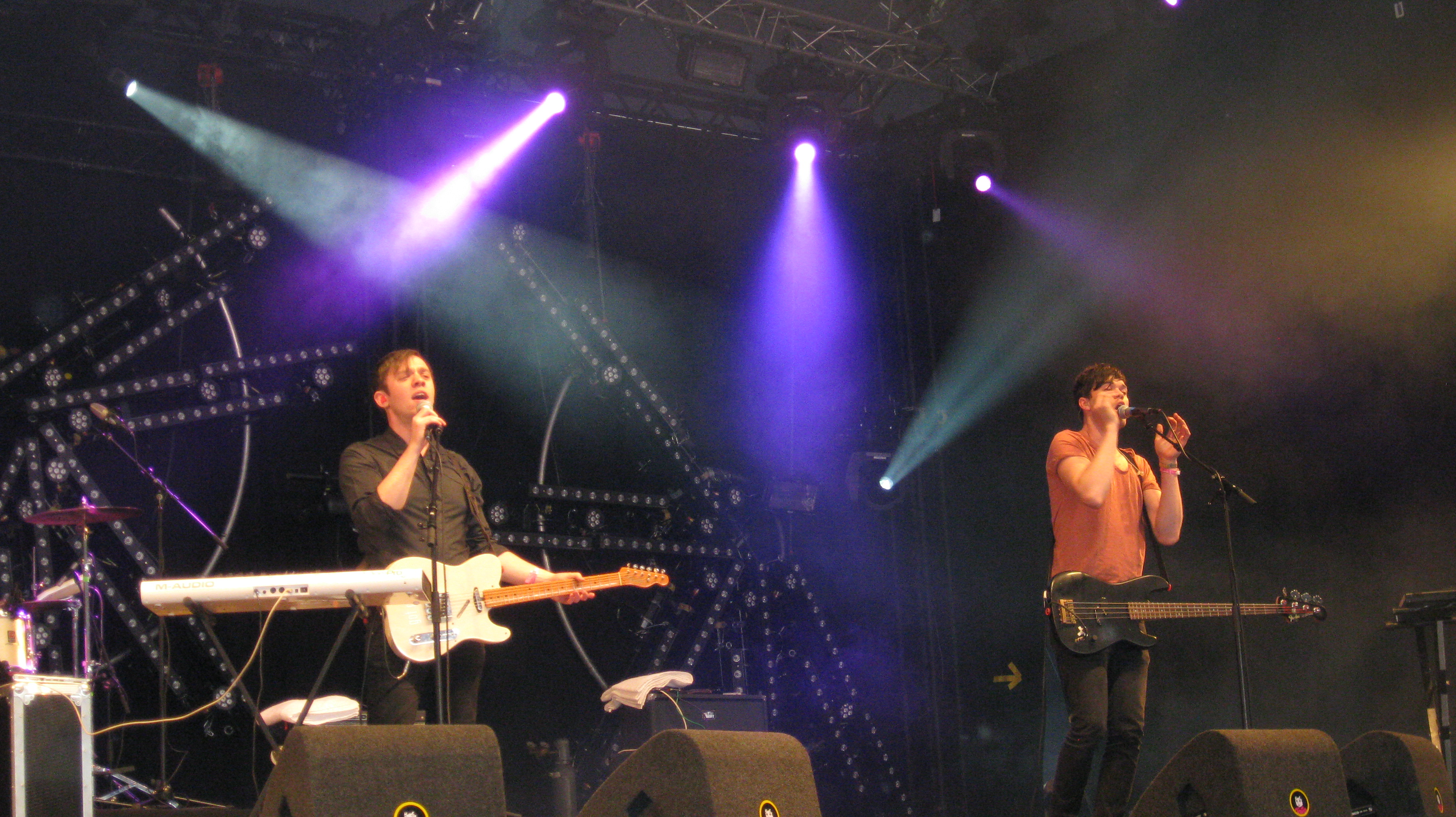 Singer Jonathan and bassist Jeremy of the band Everything Everything